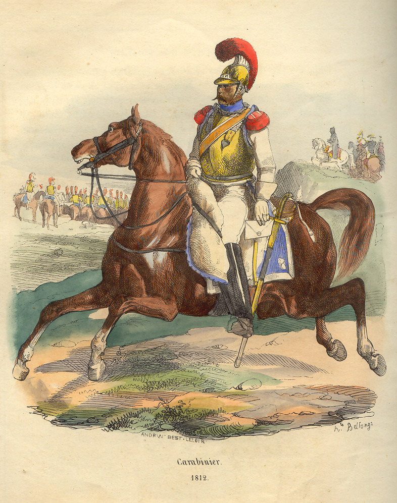 French carabiner (heavy cavalry) of Napoleon's troops. From book ofP.-M. Laurent de L`Ardeche «Histoire de Napoleon», 1843